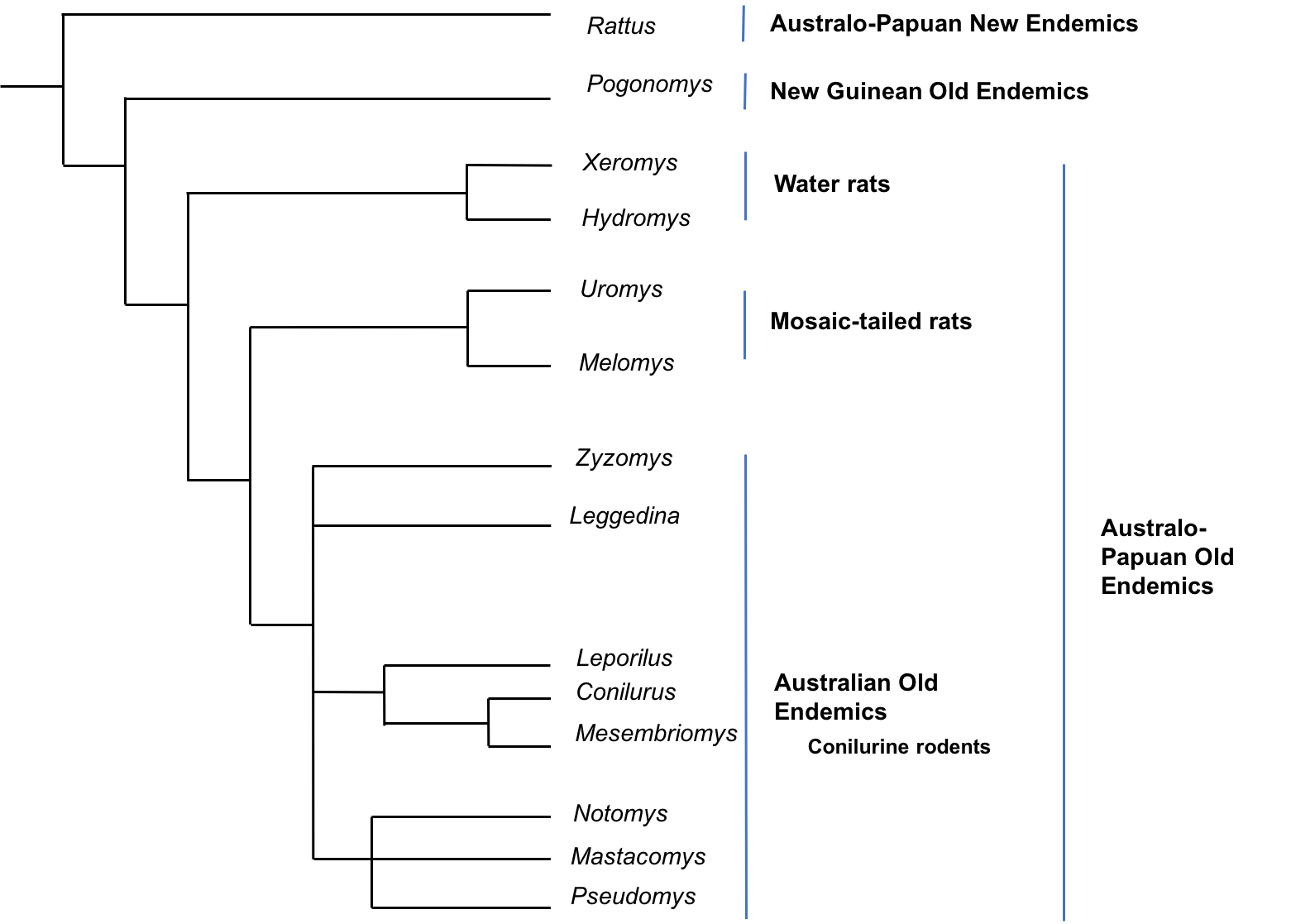 This phylogenetic tree depicts the rodents of the Subfamily Murinae. Included on this phylogenetic tree are the 13 genera of Australian rodents, including both the Australo-Papuan New Endemics and Australo-Papuan Old Endemics, and the New Guinean Old Endemics. The plains rat is of the group Pseudomys which is an Australo-Papuan Old Endemic and a conilurine rodent.